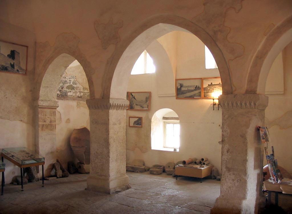 The Genoese fortress of Sudak 14th-15th centuries. Cupola-house in the Sudak Fortress.